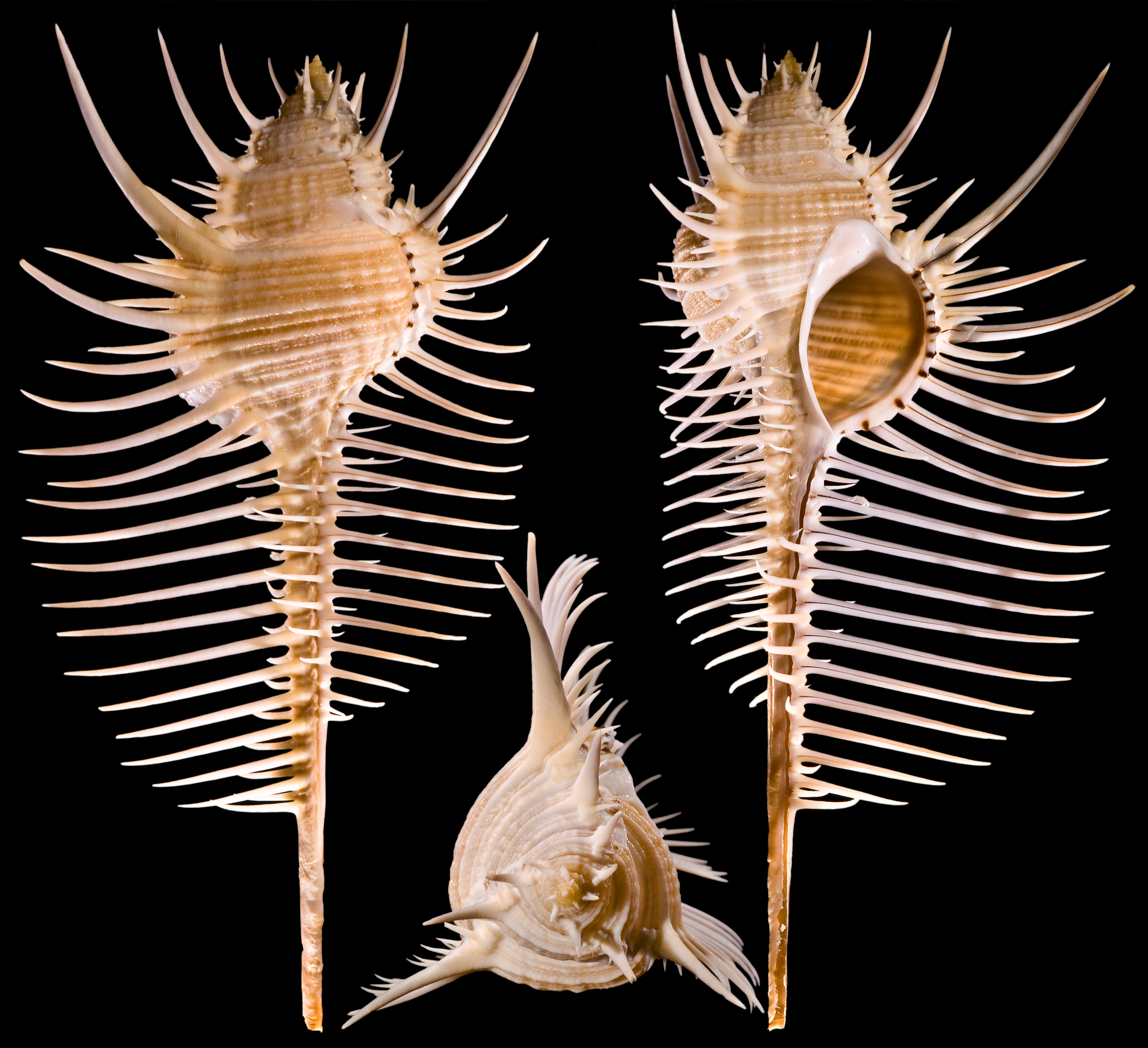 Front and side face from the same specimen - Muricidae - 15cm